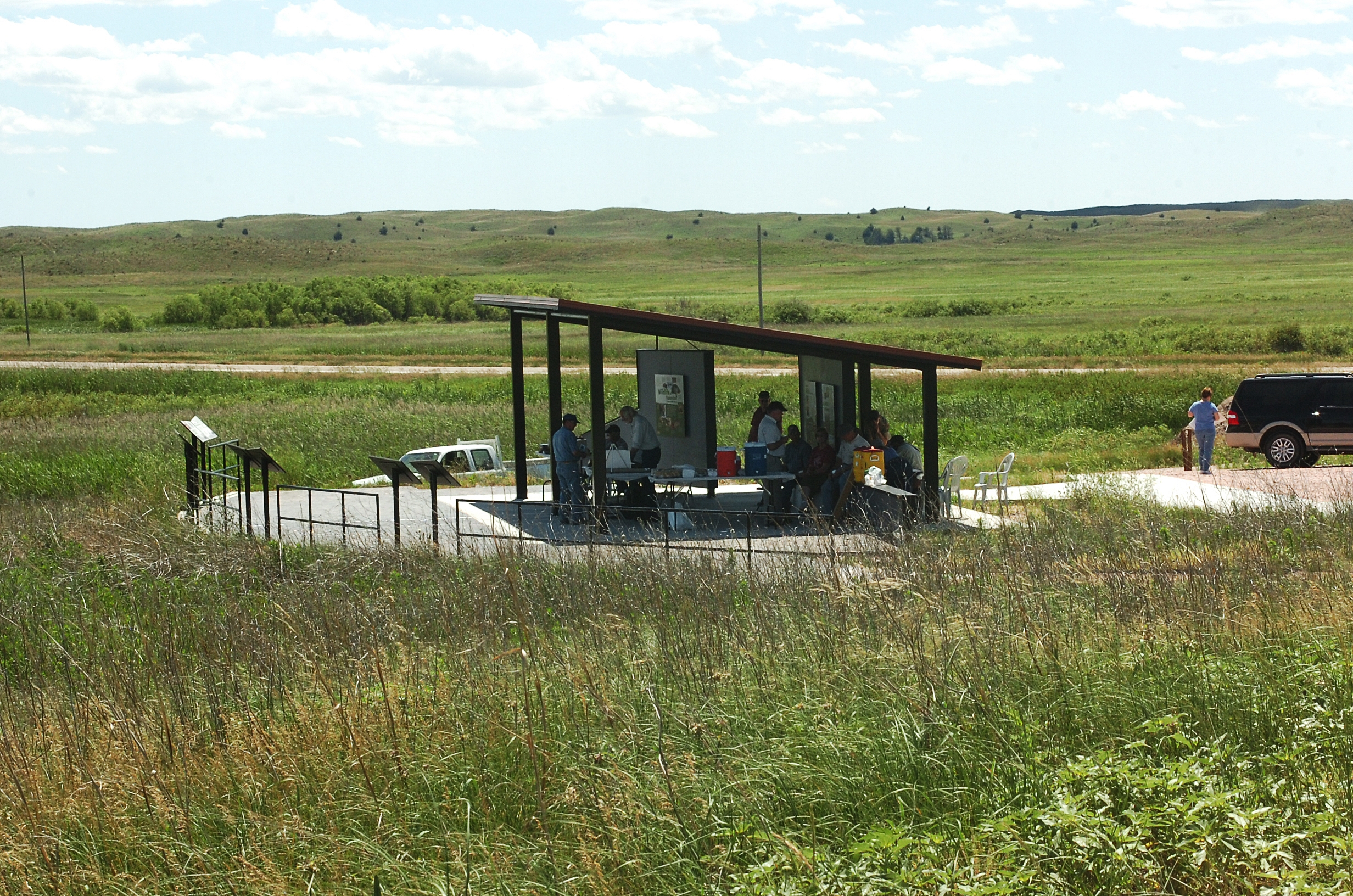 Families are welcome to come out and enjoy a picnic and observe wildlife at Valentine National Wildlife Refuge in Nebraska. Credit: USFWS Find a refuge near you at